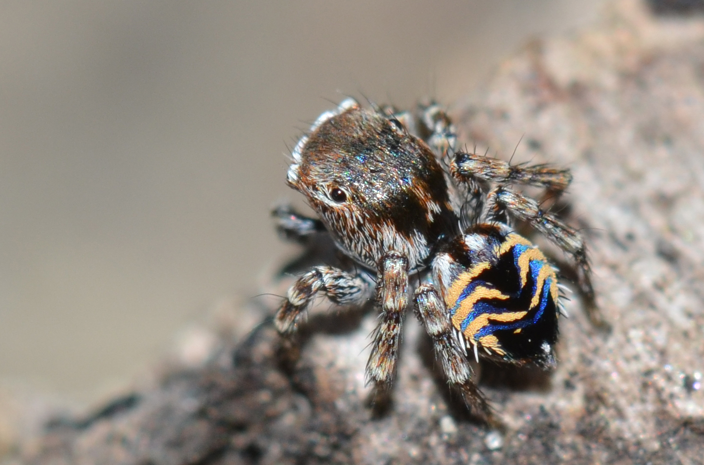 I photographed this photo first in 2009 and saw the blue and gold on the abdomen then but was unable to capture the colours in the photo. On the weekend we had the privilege of spending some time with John Tann who found one of these little spiders. Today Fred and I went back to the reserve to find another one. Such a tiny spider 2-3mm but awesome. I also saw a Lycidas chrysomelas male showing off by raising his abdomen and legs. They disappear easily in the leaf litter. A Maratus mungaich was also observed. A good day out!